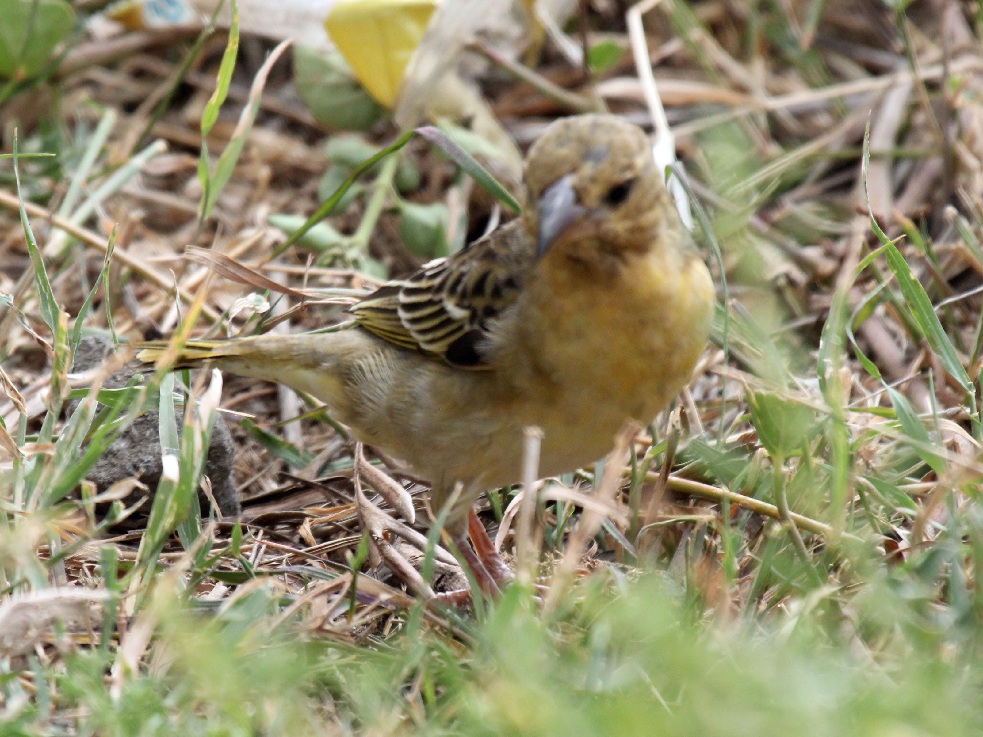 Ploceus sp., slightly north of the Masai Mara in Kenya